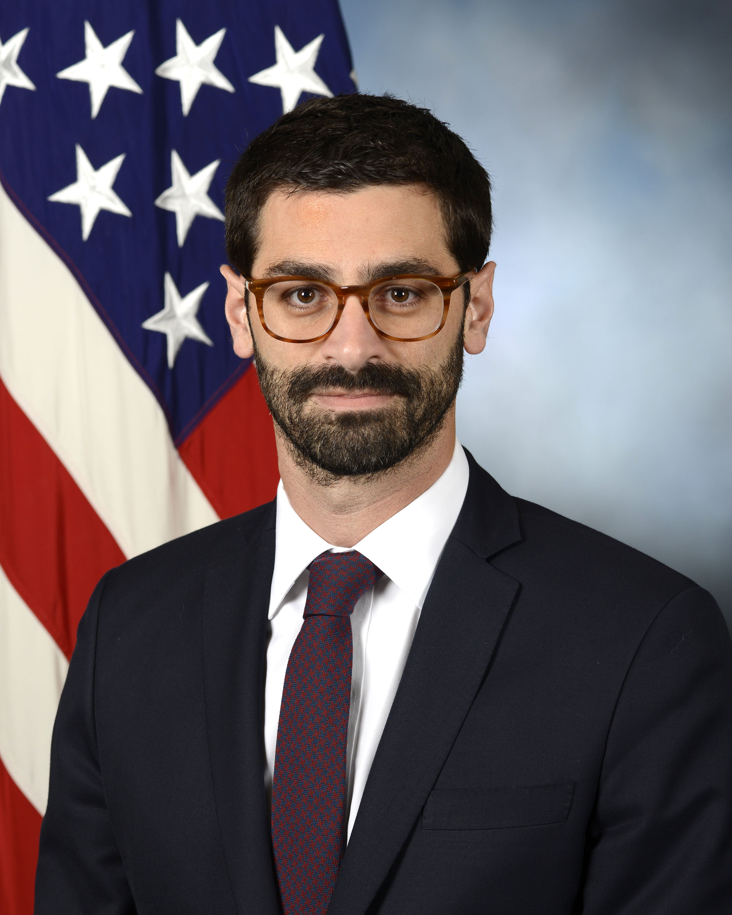 Robert S. Karem, Assistant Secretary of Defense (International Affairs), Department of Defense, poses for his official portrait in the Army portrait studio at the Pentagon in Arlington, Virginia, June 7, 2017. (U.S. Army photo by Monica King/Released)